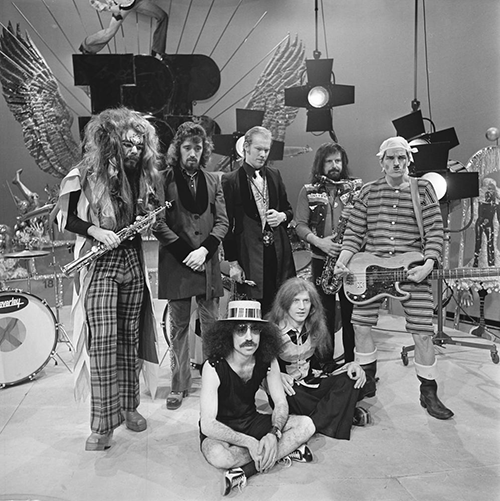 Wizzard in AVRO's TopPop (Dutch television show) in 1974